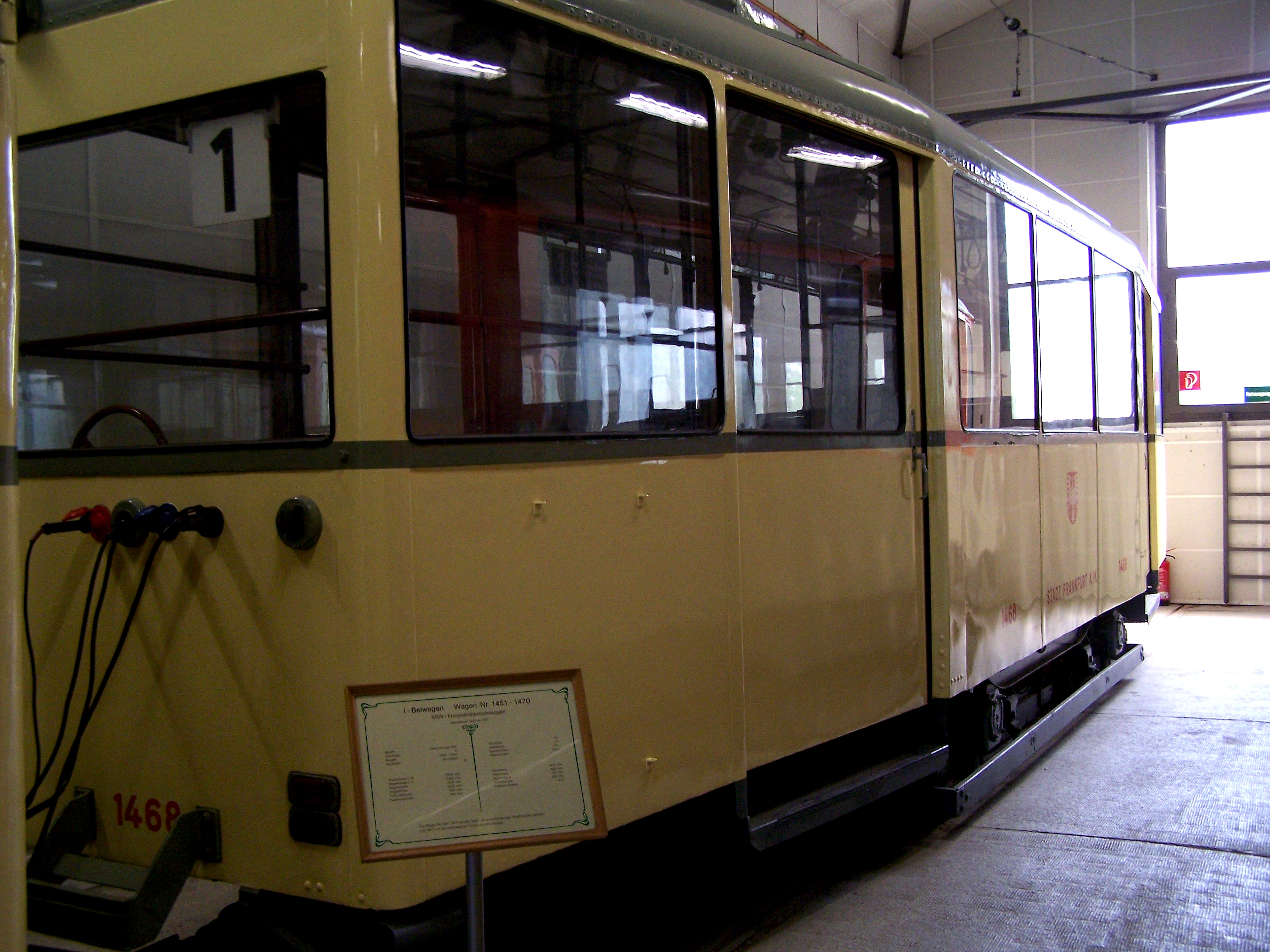 tram trailer type i No 1468 in the Frankfurt on Main Transport Museum in Frankfurt am Main--Schwanheim